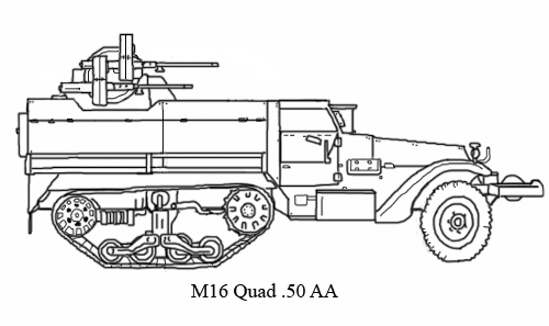 M3 Half-Track with a quad .50 gun, named the M16.